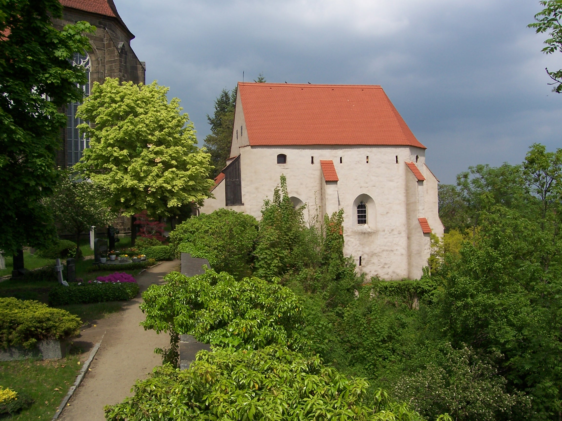 The catechism church Kamenz, Upper Lusatia, Germany is a former fortified church.